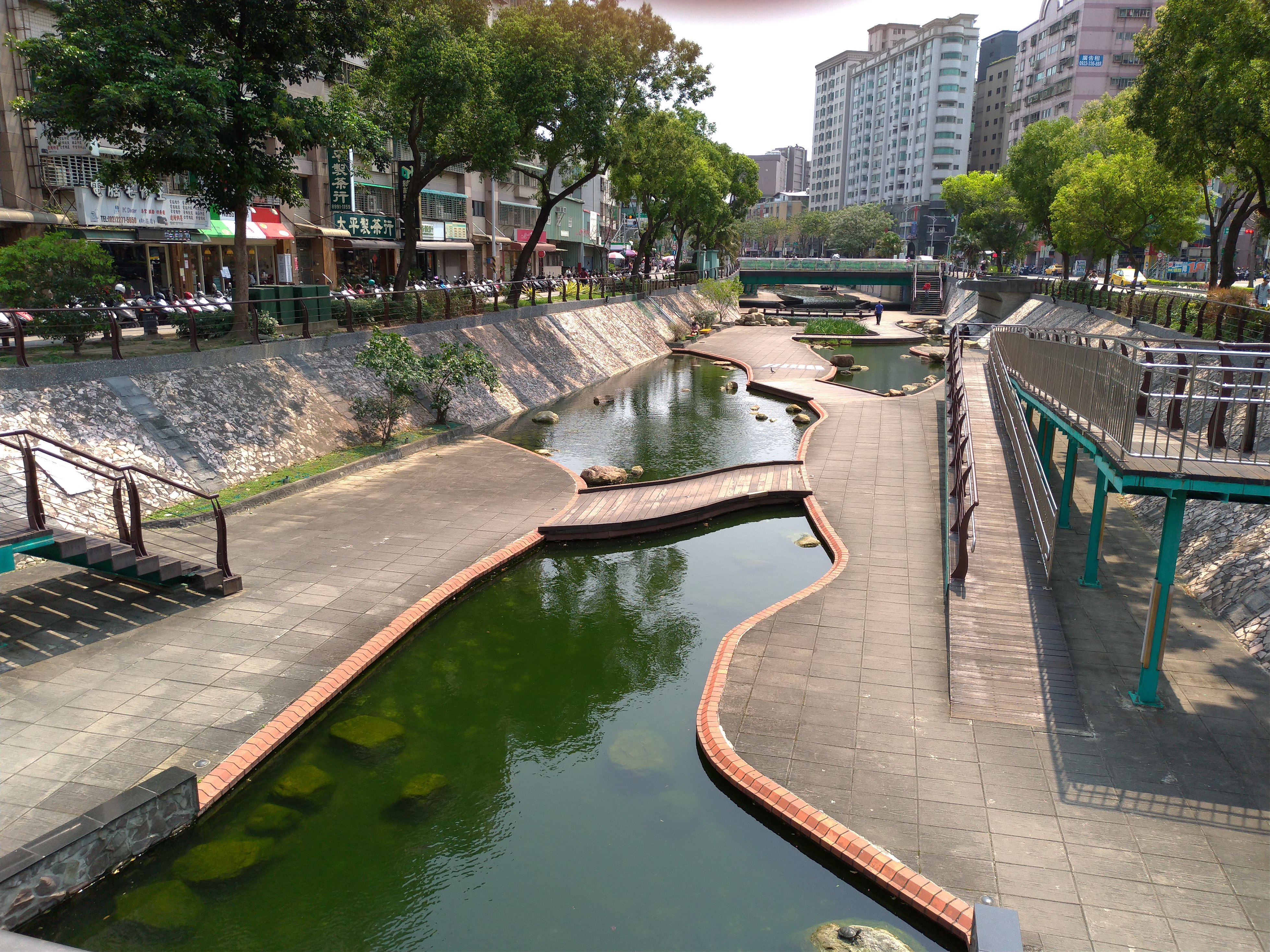 Zhong-Gang Drainage in Xinzhuang Dist., New Taipei City, Taiwan. Near by Xingfu Rd.